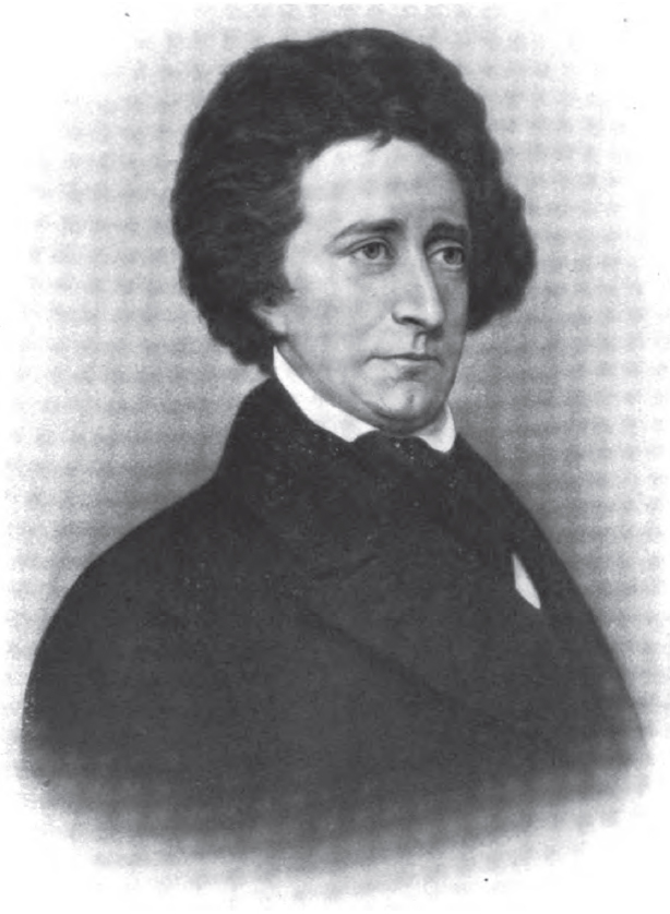 Kentucky Congressman William W. Southgate